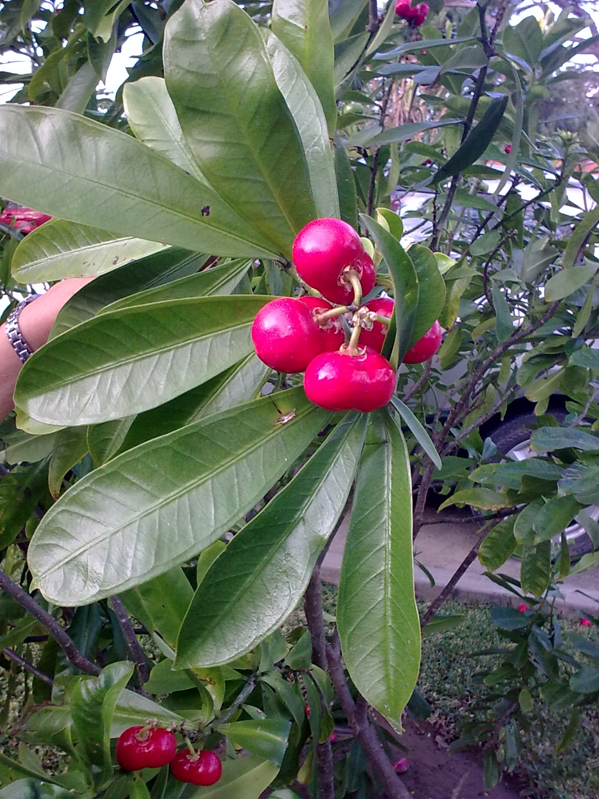 Unidentified fruit, Tehuantepec, Mexico